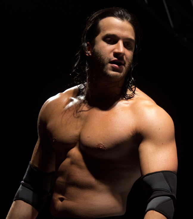 Professional Wrestler, Trent Barreta